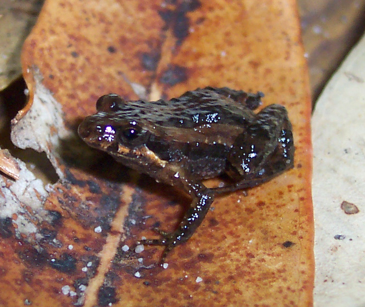 A Wallum Froglet, (Crinia tinnula) from Myall Lakes National Park, NSW.